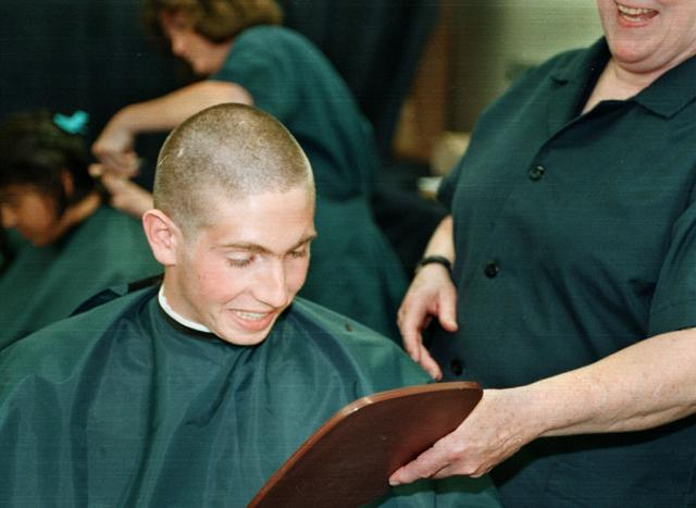 Subject: Buzzcut Photographer: Photographer's Mate 1st Class (NAC) Mark S. Kettenhofen Date: July 1, en:1998 Location: United States Naval Academy, Annapolis, Maryland Source: U.S. Navy Office of Information